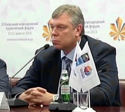 Oleksandr Anatoliyovych Volkov, Ukrainian politician, member of the Ukrainian Verkhovna Rada, former basketball player, Olympic champion